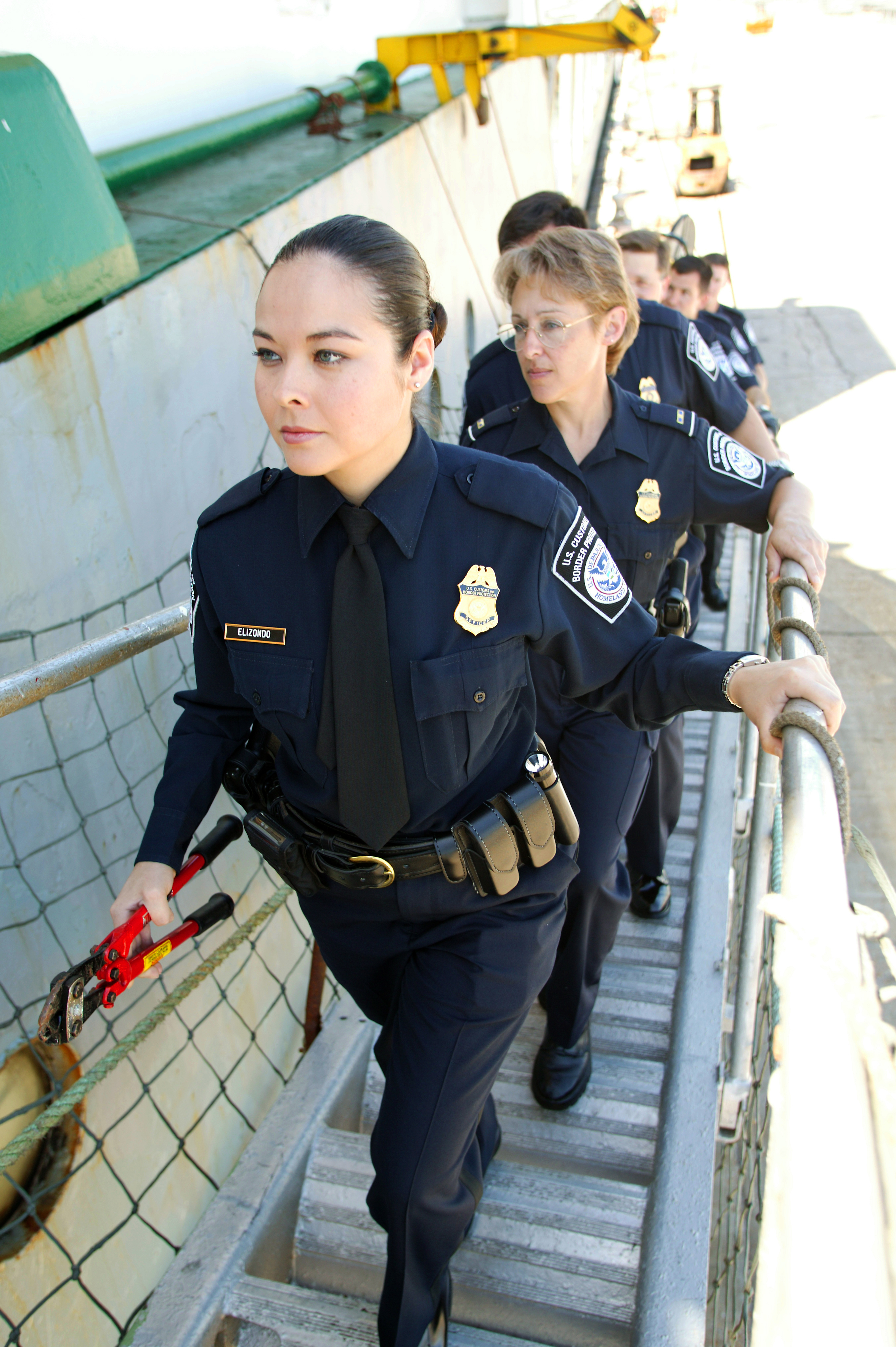 U.S. Customs and Border Protection (CBP) officers going aboard a ship to examine cargo in May 2004.